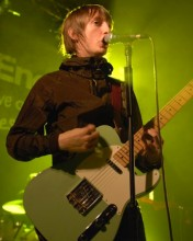 Tom Clarke taken by myself at The Enemy concert 2007